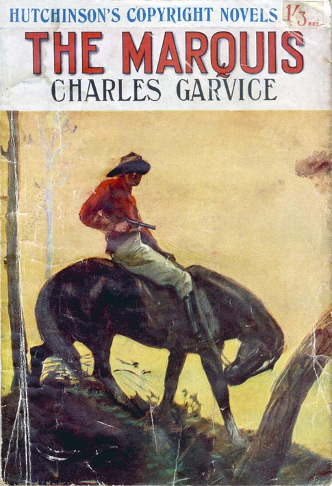 Cover image The Marquis (1895) by Charles Garvice (1850-1920)